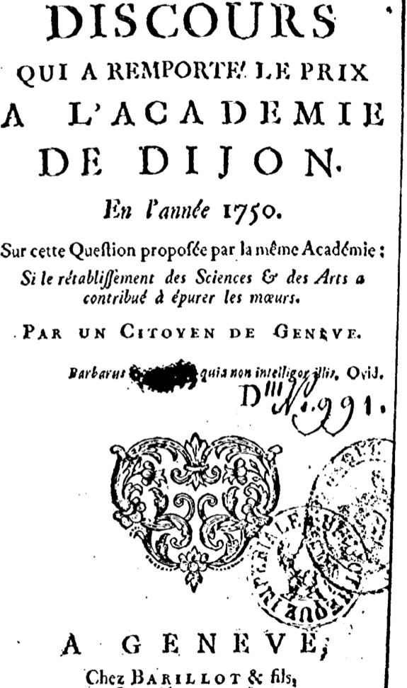 Title page of the Discourse on the Arts and Sciences by Jean-Jacques Rousseau (1712-1778)